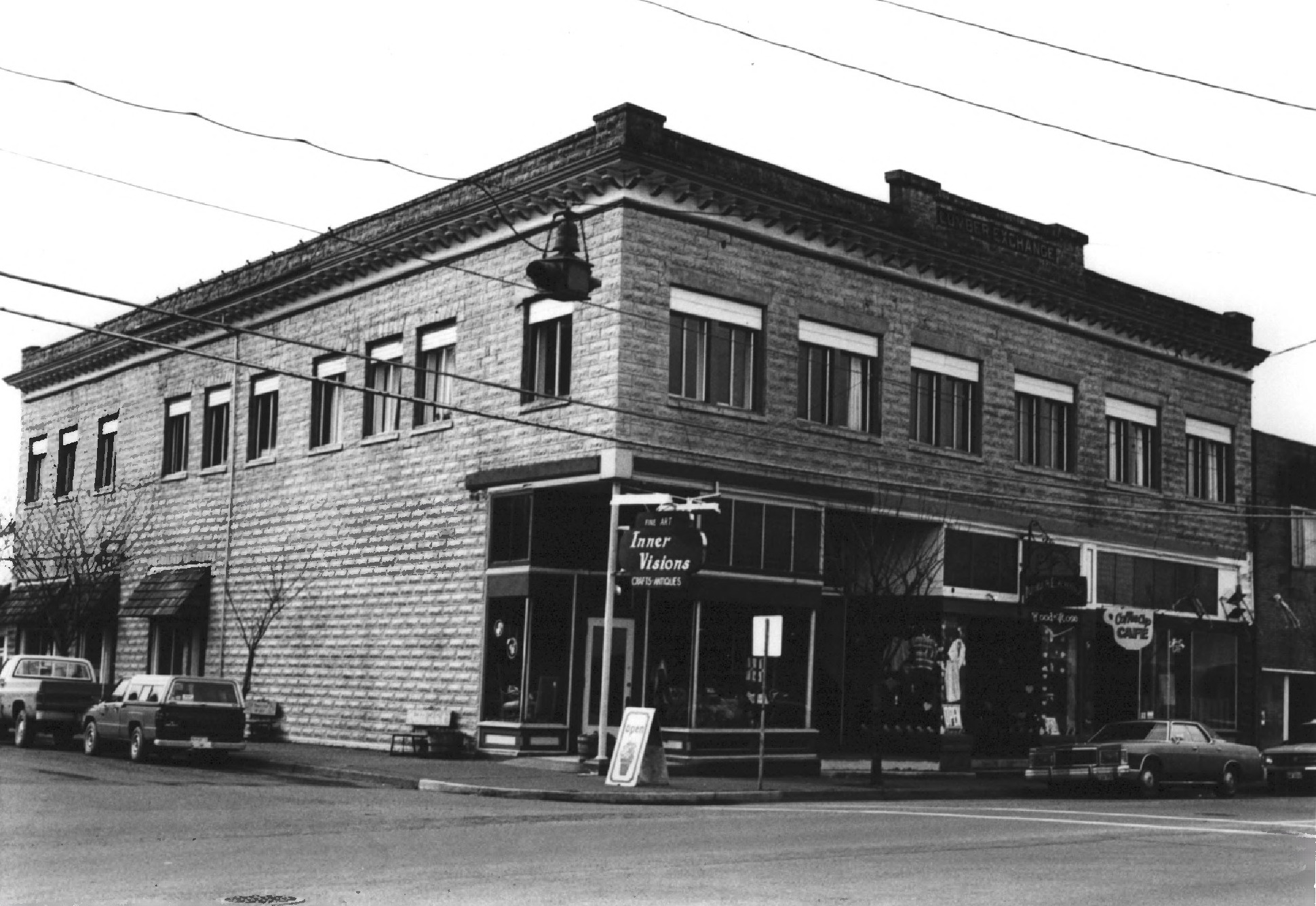 The historic Lumber Exchange Building (built 1907), formerly located at the junction of Willapa Avenue and U.S. 101 in South Bend, Washington, United States, is listed on the U.S. National Register of Historic Places. The building was demolished in 2006 after a partial collapse.